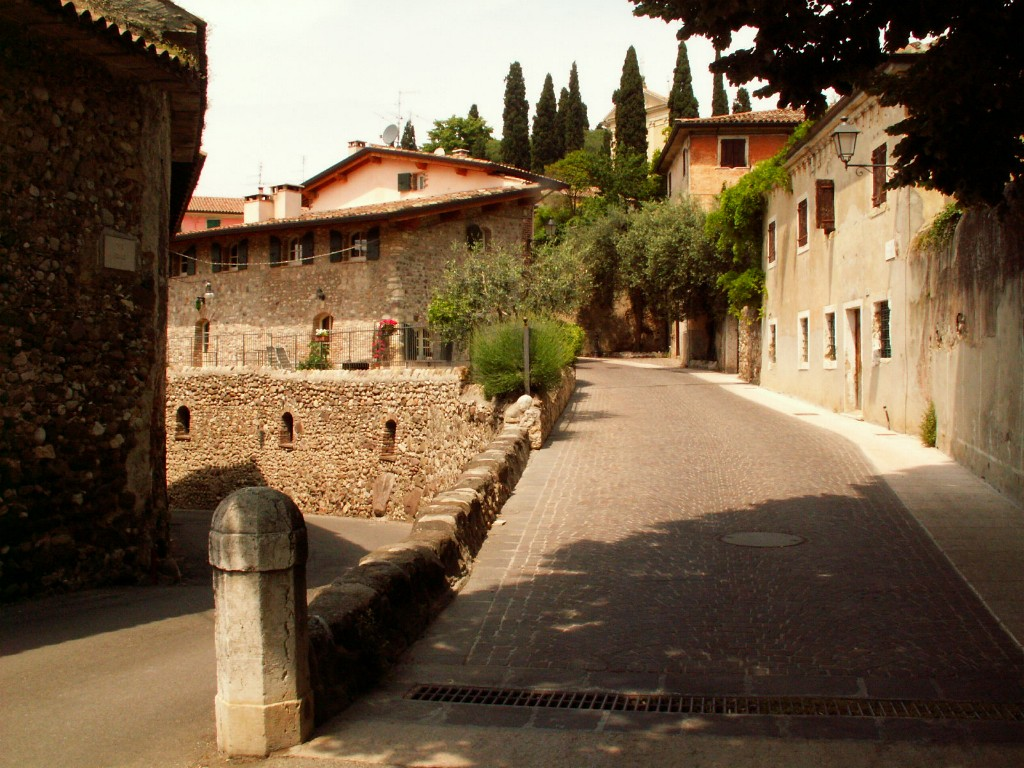 Summary Quelle: selbst fotografiert, 05/2006 Fotograf: Späth Chr. Licensing